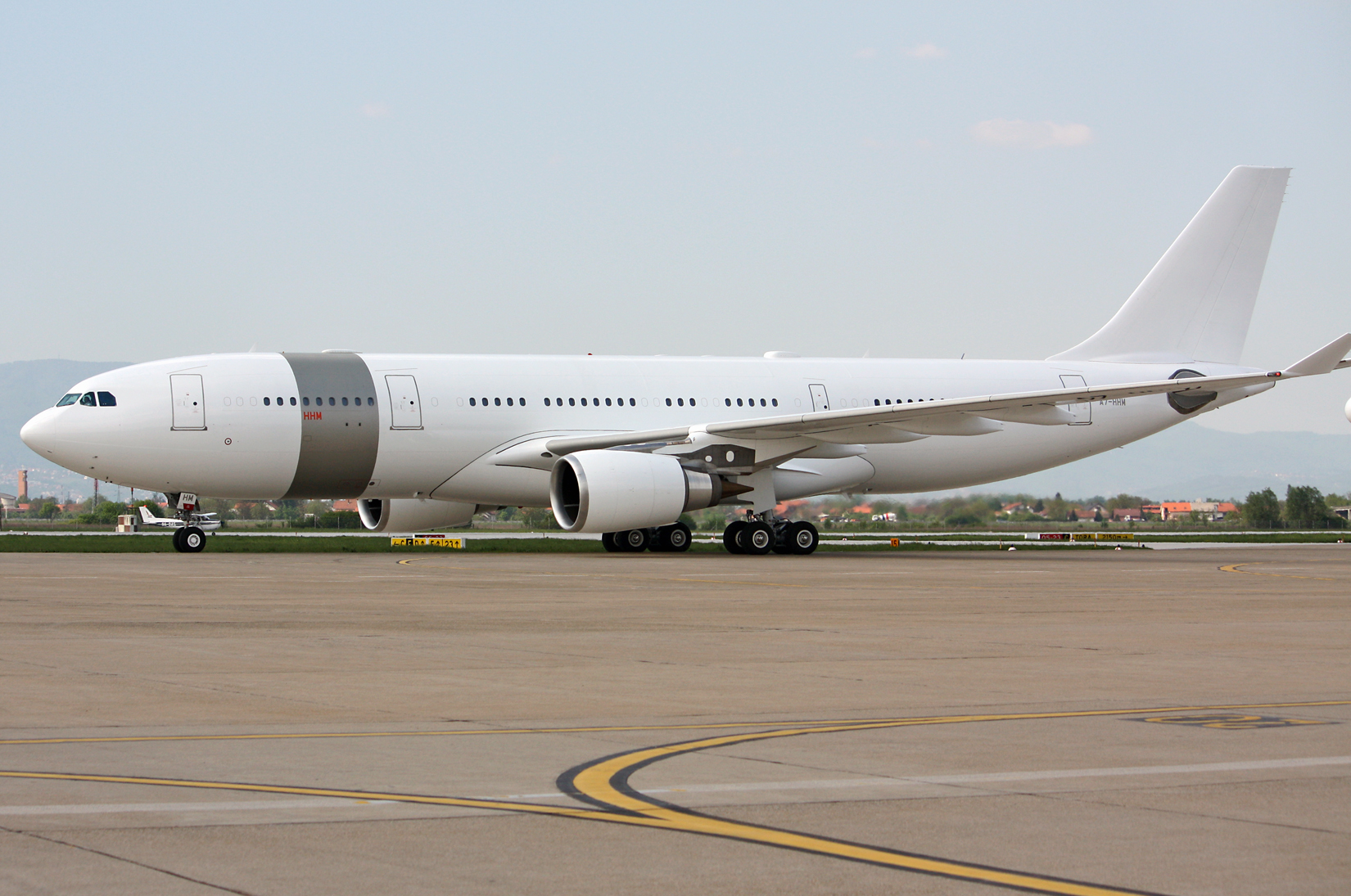 VIP aircraft A330 of Qatar Airways taxiing on Zagreb airport.